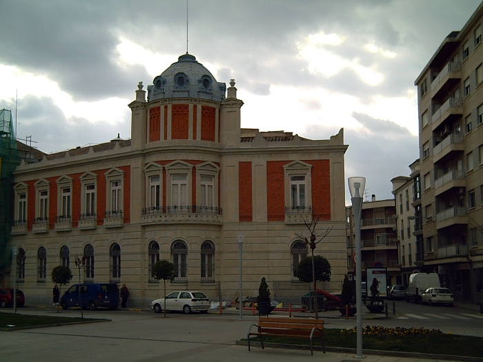 A own work release by Javier martin gathered Ciudad Real up, 20 march 2006, donated to Wikipedia fundation. Diputación de Ciudad Real